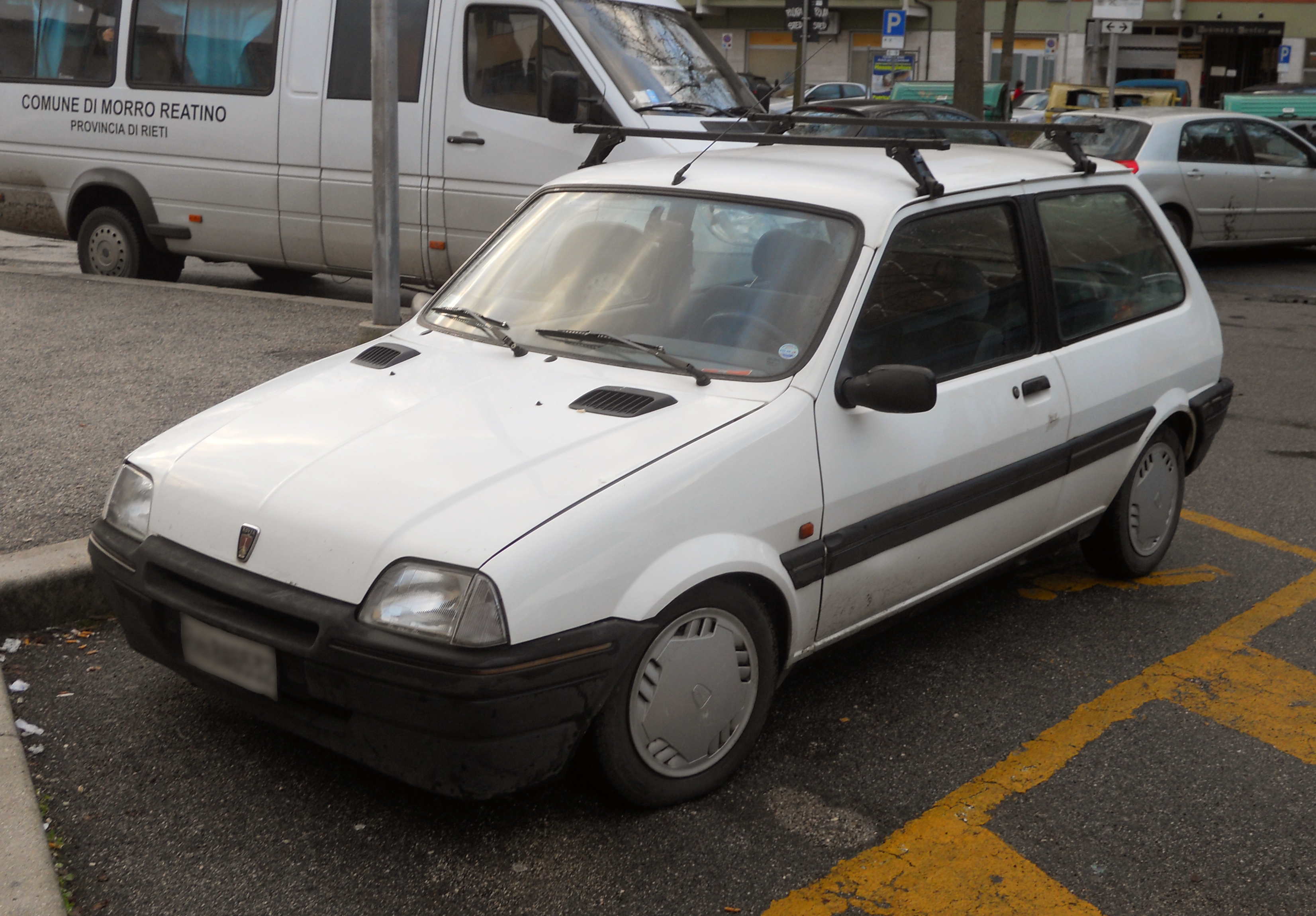 A Rover 111 SL in Rieti, Italy. Registred in June 1991 in Lazio; it uses a 1119 cm³, 44 kW, Euro 0 petrol engine.